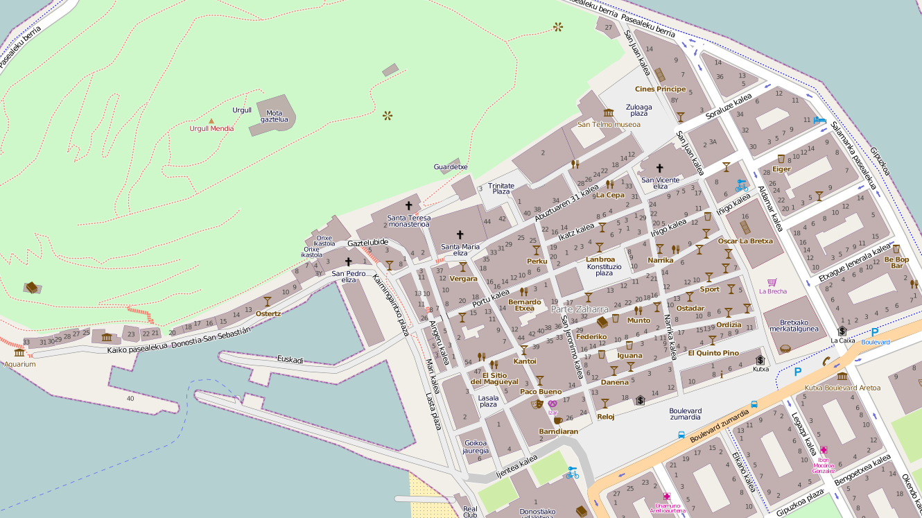 City center of Donostia. Gipuzkoa, Basque Country.